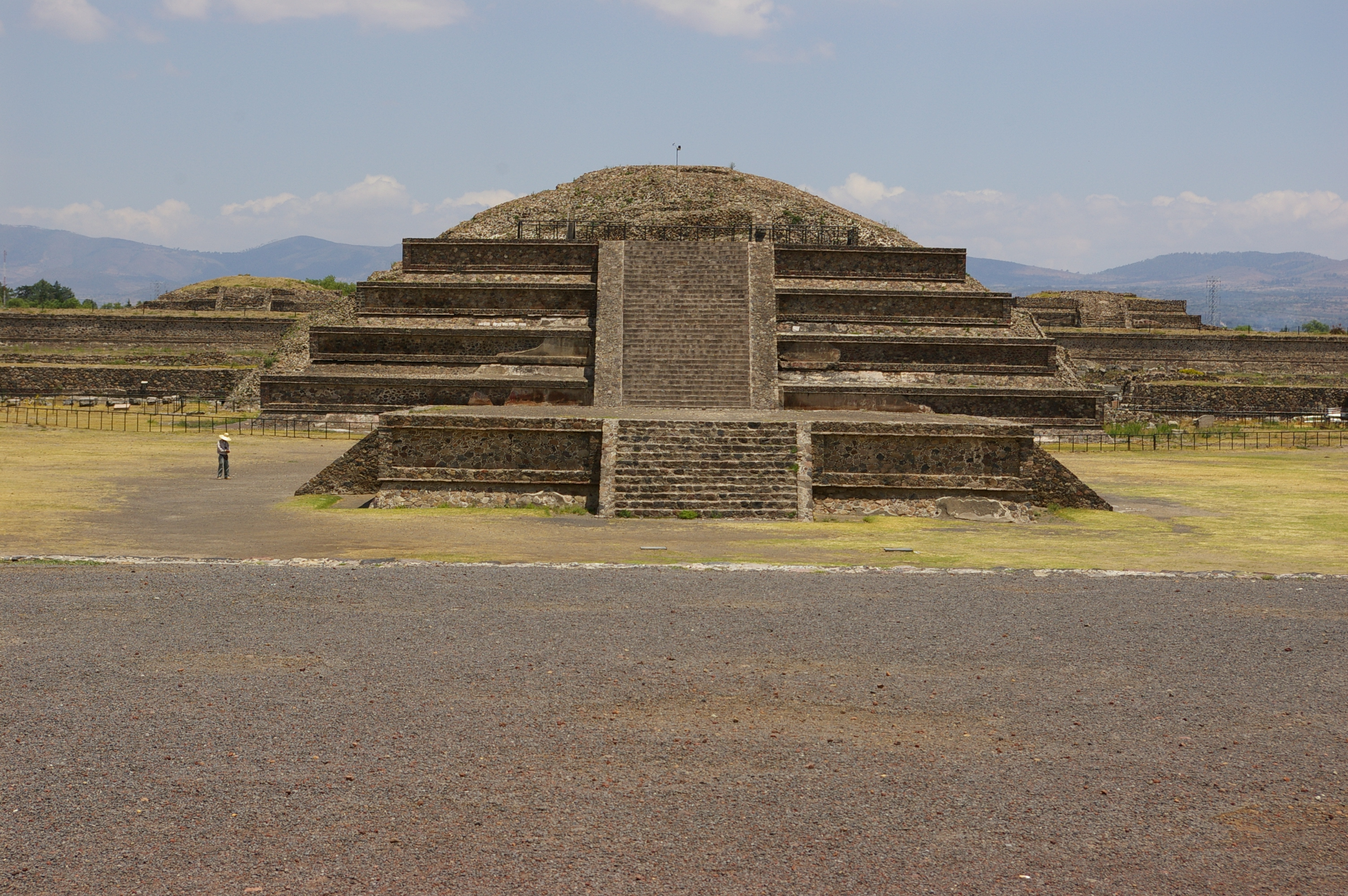 Teotihuacan - Temple of the Feathered Serpent. The Adosada platform is the second platform, and immediately behind it is the Pyramid of the Feathered Serpent.